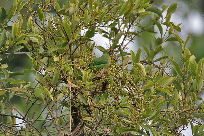 Golden-fronted Leafbird Chloropsis aurifrons at Jayanti in Buxa Tiger Reserve in Jalpaiguri district of West Bengal, India.